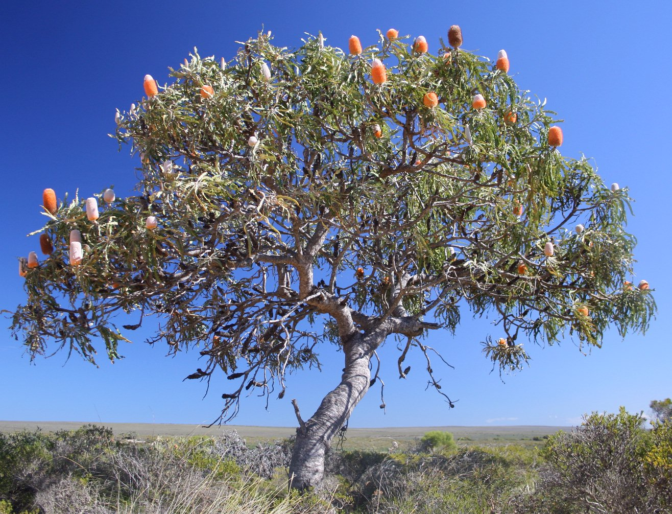 A more gnarled specimen of a tree-like Banksia prionotes from the more northern end of its distribution north of Kalbarri NP